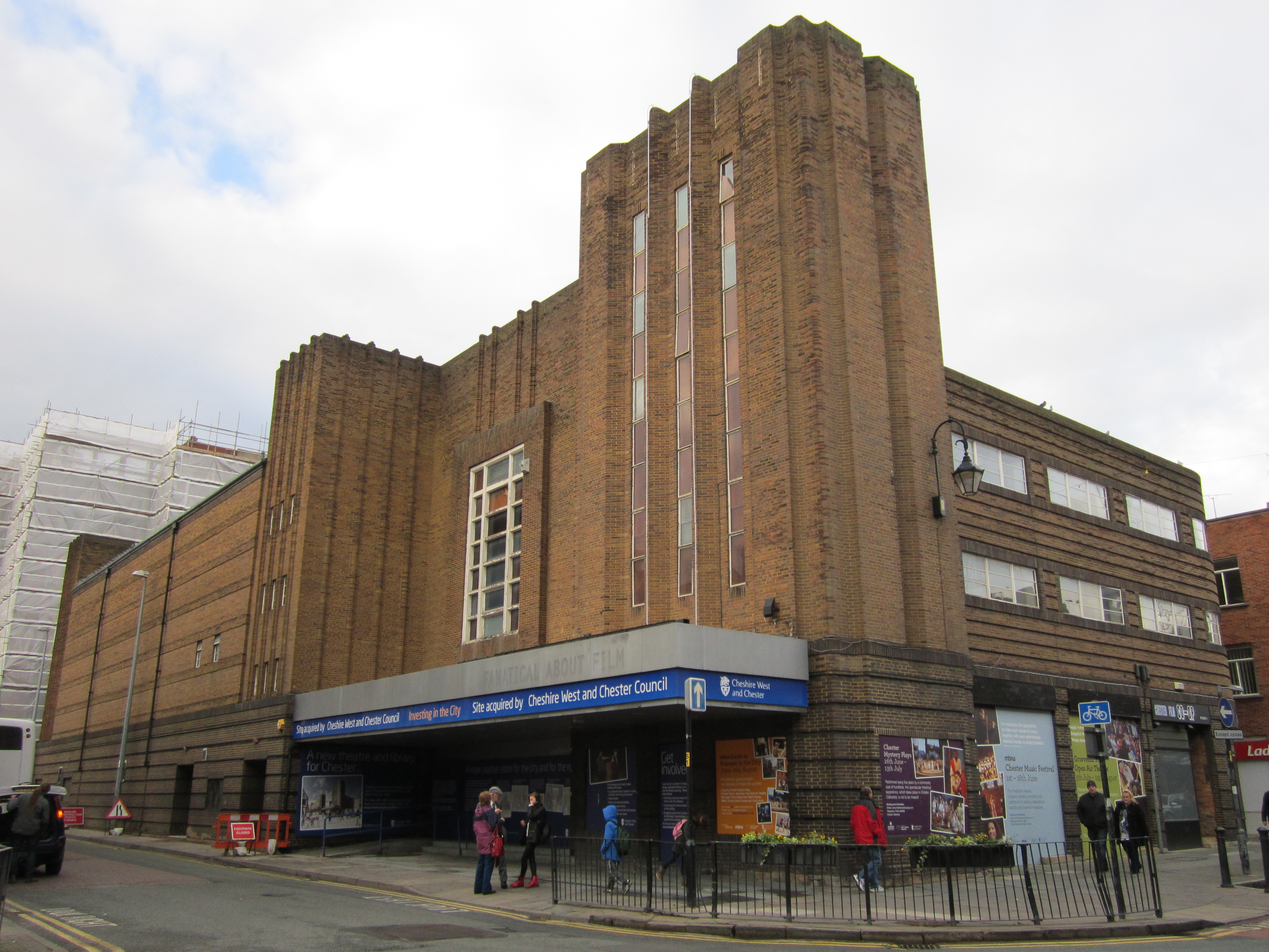 Former Odeon Cinema, on the corner of Northgate Street and Hunter Street, Chester, England. Designed by Robert Bullivant of the Harry Weedon Partnership, and completed in 1936.